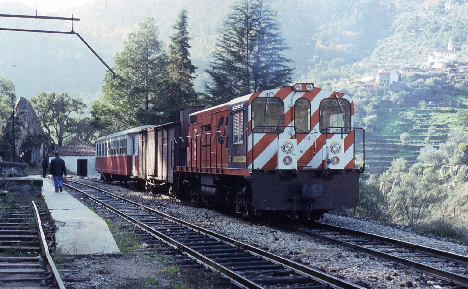 One of the metre gauge branches connecting off the Duoro valley still had loco hauled trains on our visit in November 1993. Seen on the branch to Mirandela, 9030 pauses at Santa Luzia on train 6205, 11:21 Tua to Mirandela. Photo taken 9 November 1993.